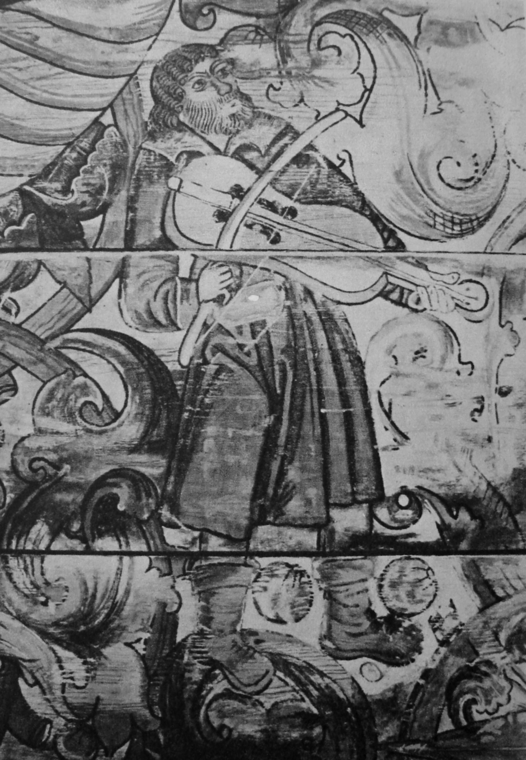 Polish fiedler 1530.